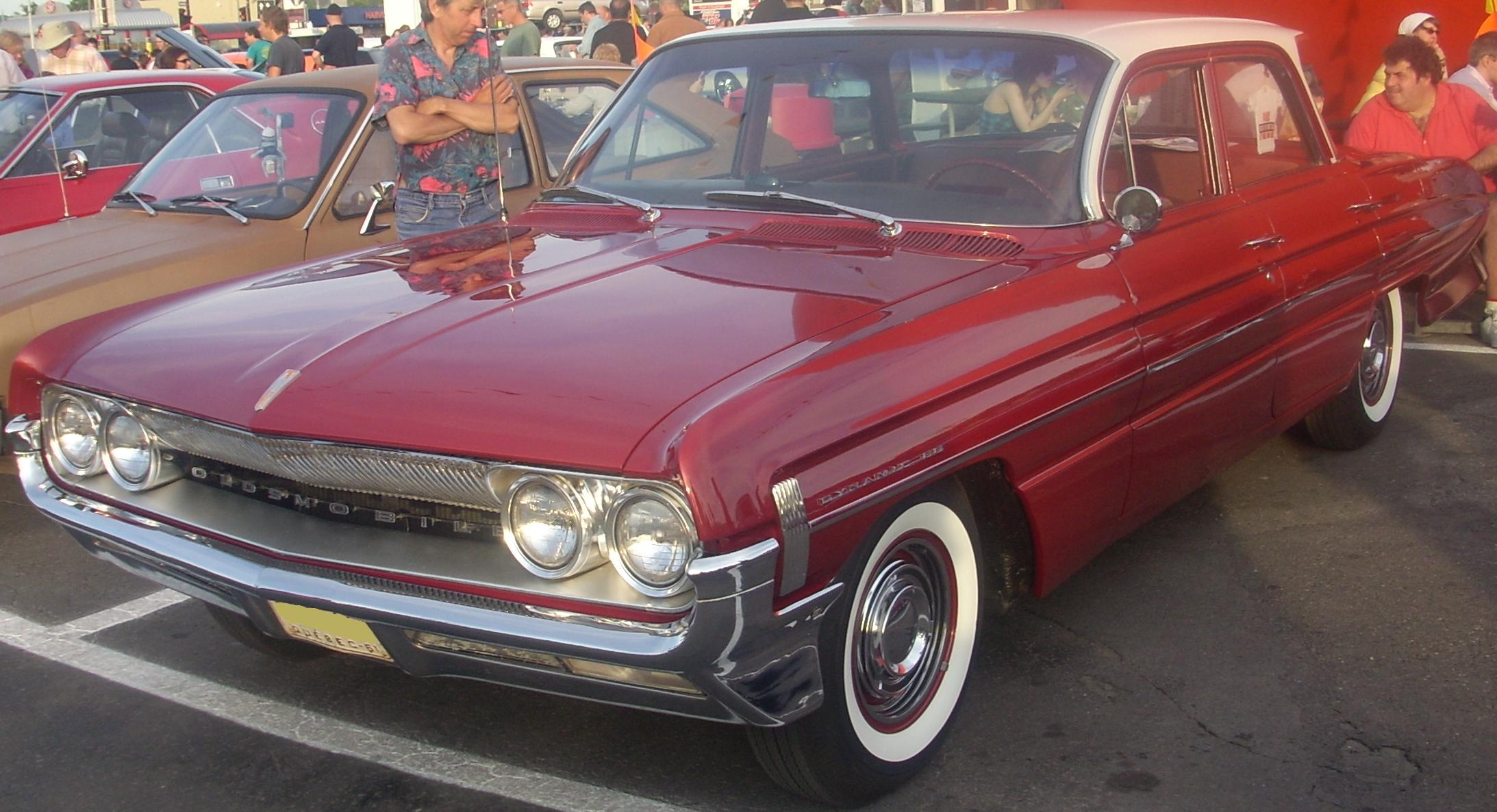 1961 Oldsmobile Dynamic-88 photographed in Montreal, Quebec, Canada at Gibeau Orange Julep